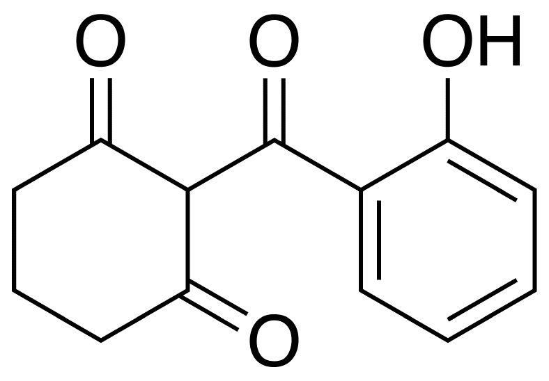 Skeletal structure of a generic parent structure of many P-hydroxyphenylpyruvate dioxygenase inhibitors